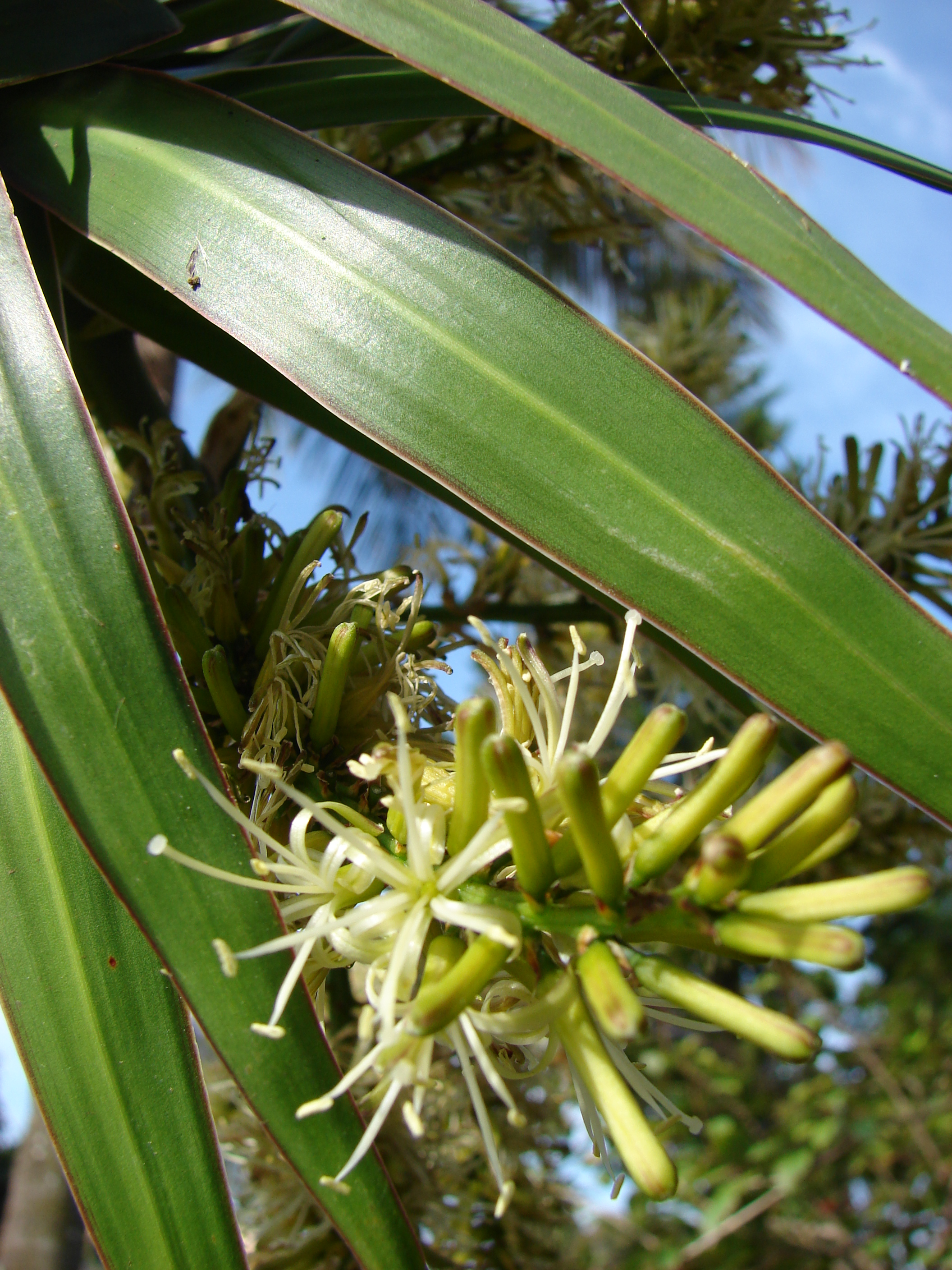 Dracaena marginata (flowers and leaves). Location: Maui, Makawao